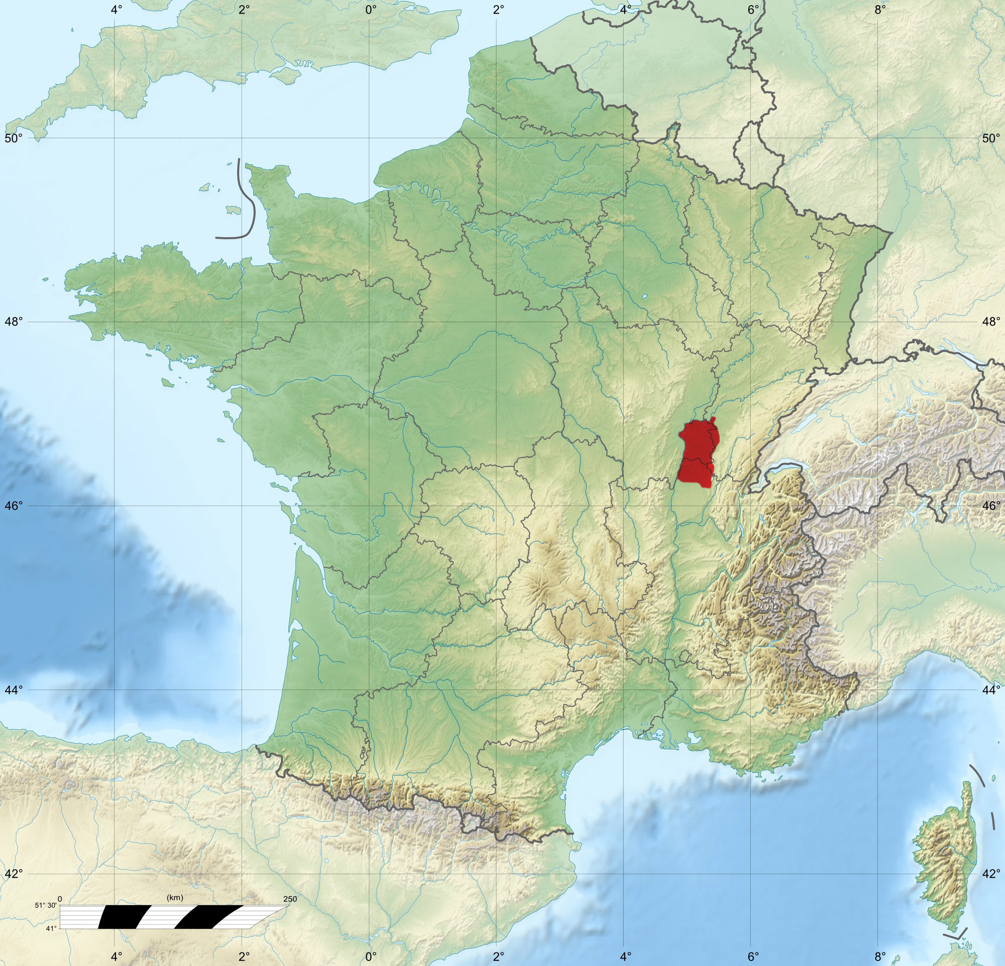 Approximate area of production of the Poulet de Bresse AOC (appellation d'origine contrôlée), based roughly on overlaid on File:France relief location map.jpg by Eric Gaba (Sting - Sting)